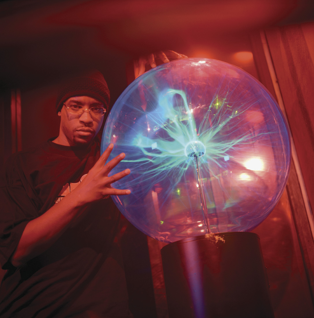 Hamburg/Germany 2001